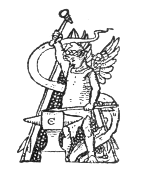 Logo of J. W. Arrowsmith — From title page of Cricket, by WG Grace.